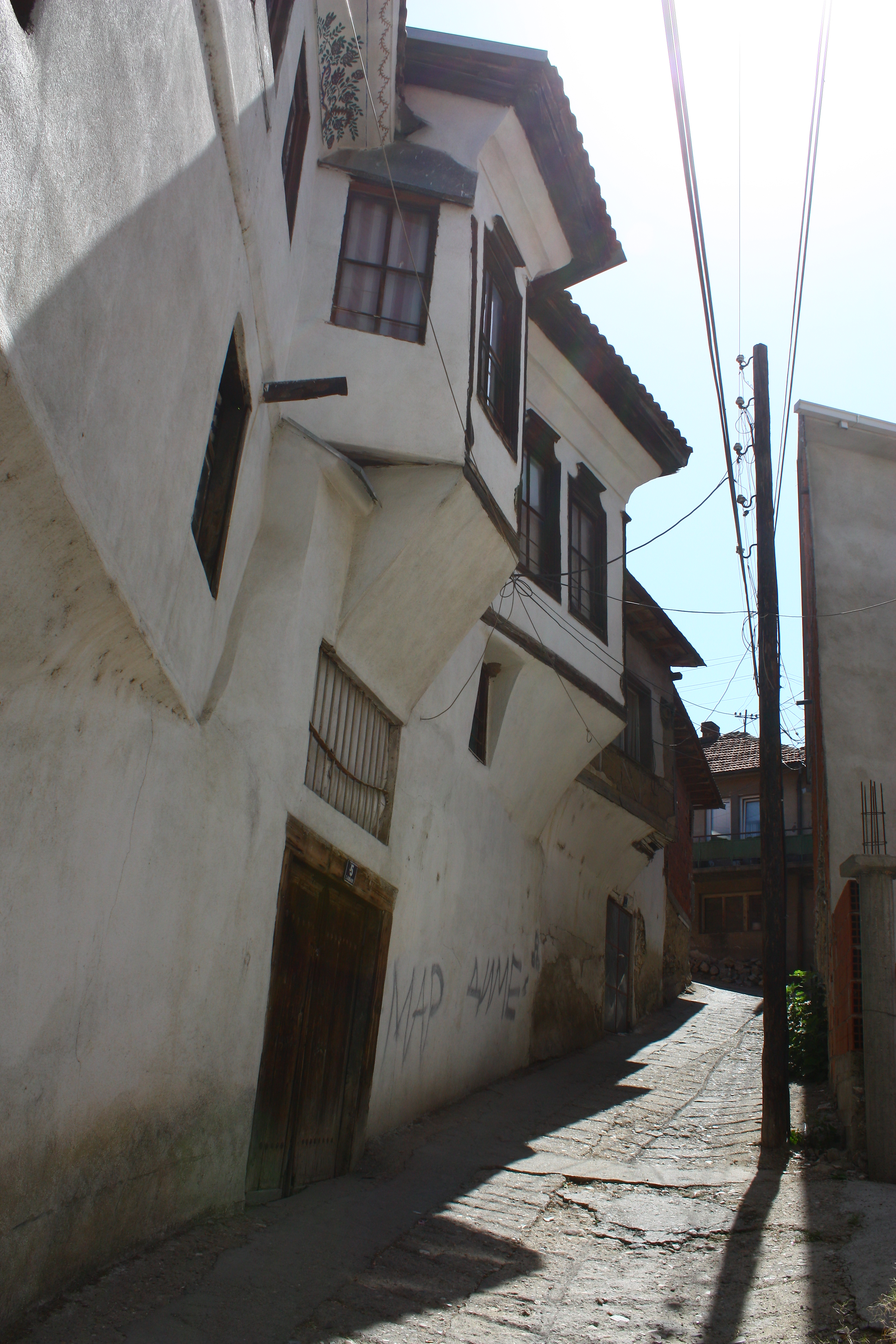 Vаrnalii complex in Veles, Macedonia